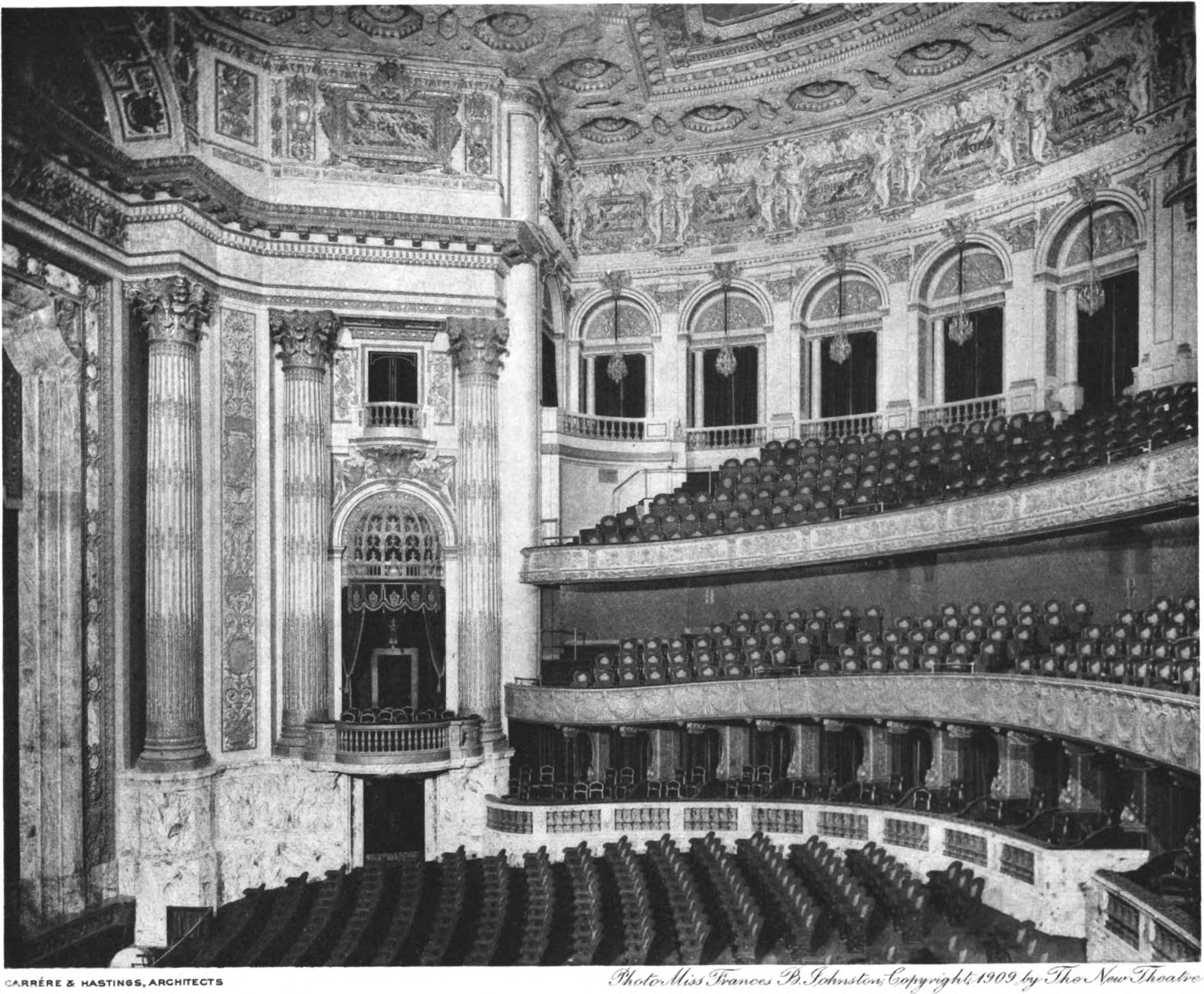 Side view of the auditorium of the New Theatre on Central Park West in New York City.